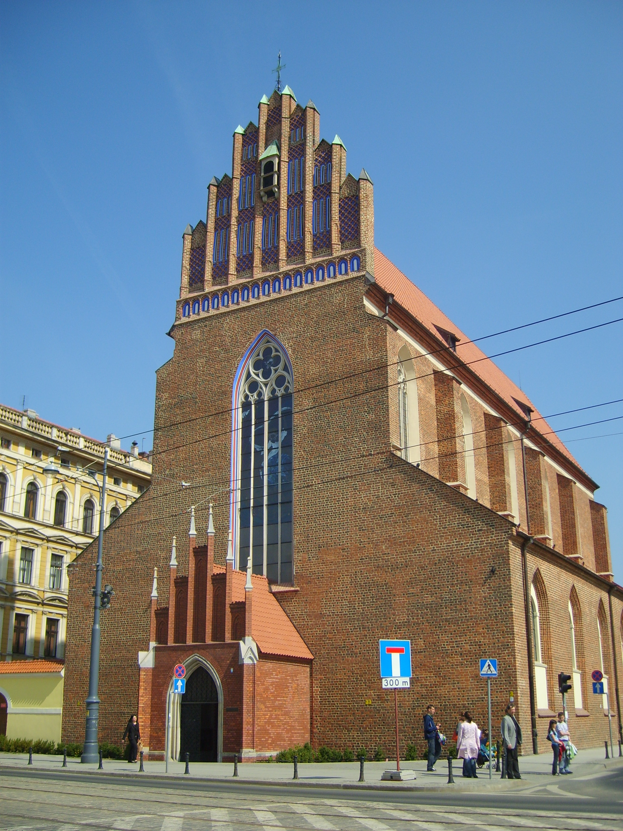 Bożego Ciała Church in Wrocław